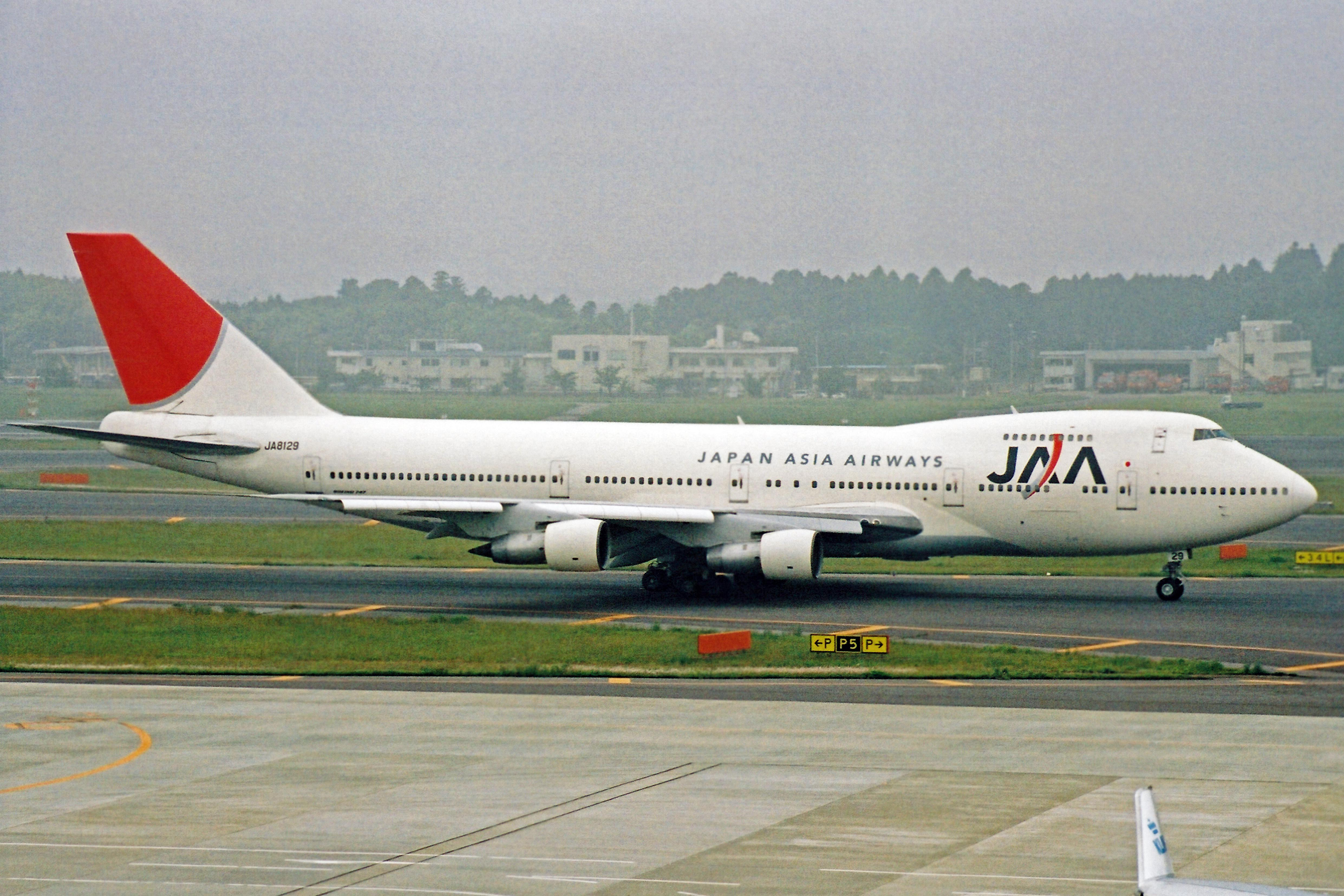 New JAL Group c/scheme (in 2003). This aircraft was delivered new to Japan Airlines in Mar-79 and transferred to Japan Asia Airways in Sep-90. It wasn't really worth repainting it into JAL Group's latest c/scheme in early 2003 as it was sold to Orient Thai Airlines in Dec-03. It only operated with Orient Thai for just over two years and was stored at Bangkok-Don Muang in early 2006. It was finally broken up there in late 2010.